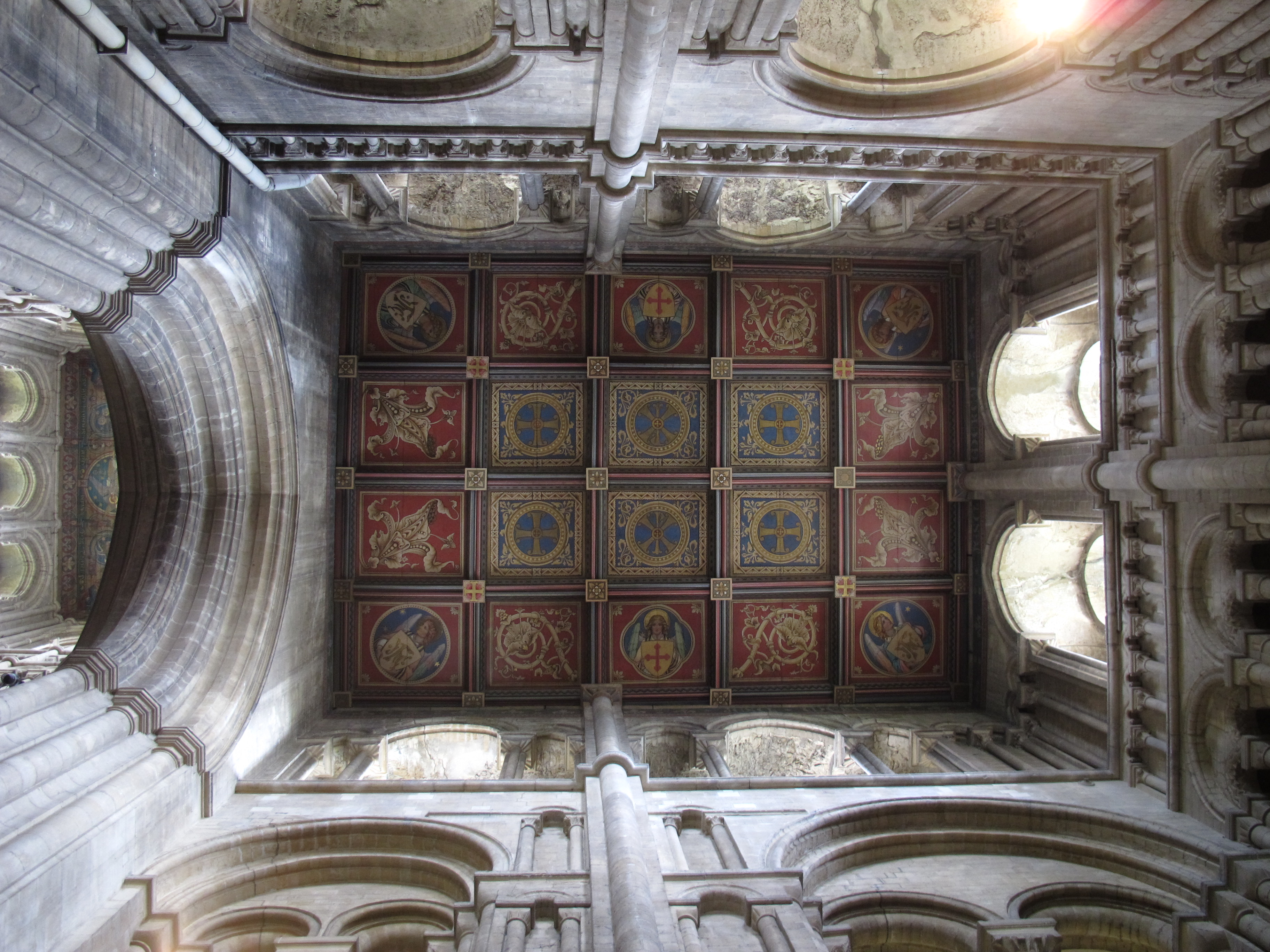 Wooden roof of the southwest transept of Ely cathedral